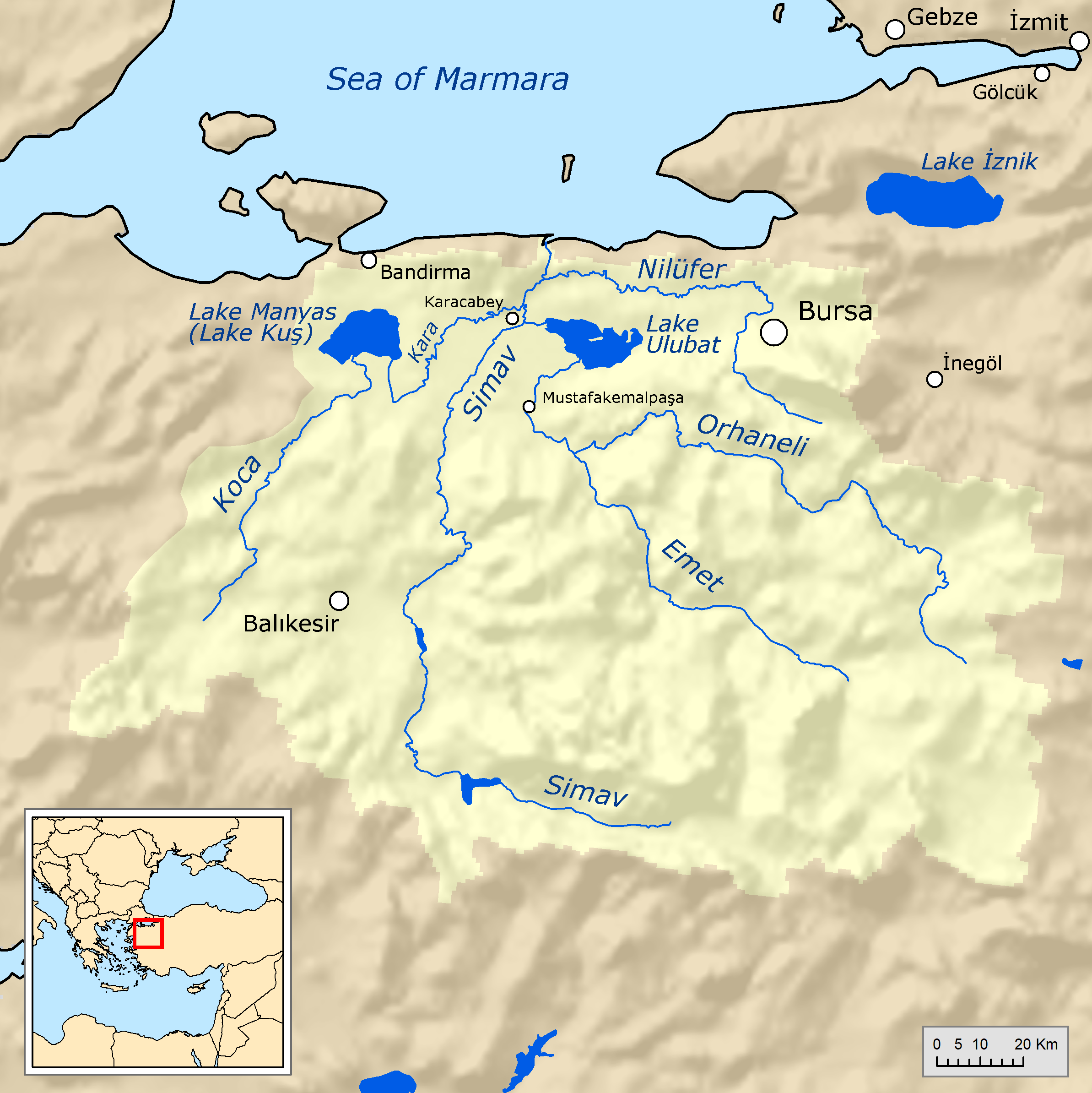 Map of the Simav River basin. Data is from Natural Earth [1], Vector Map [2], and GTOPO [3].